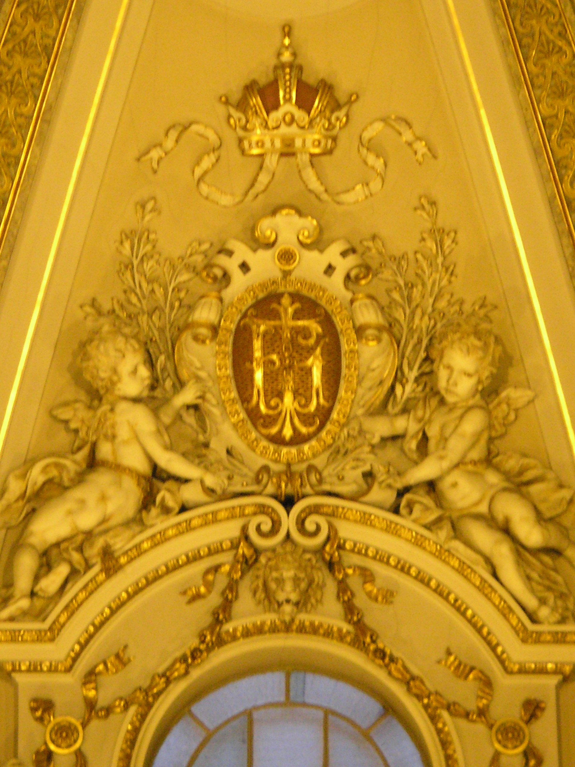 Description: View of the monogram of Emperor Franz Joseph I of Austria (FII = Franciscus Iosephus Imperator) in the grand cuppola in the Kunsthistorisches Museum in Vienna. Monogramm des Kaisers Franz Joseph I. (Österreich-Ungarn) (FII = Franciscus Iosephus Imperator) in der Hauptkuppel im Kunsthistorischen Museum in Wien. Fall 2005. Source: Self-made, I release it into the public domain.